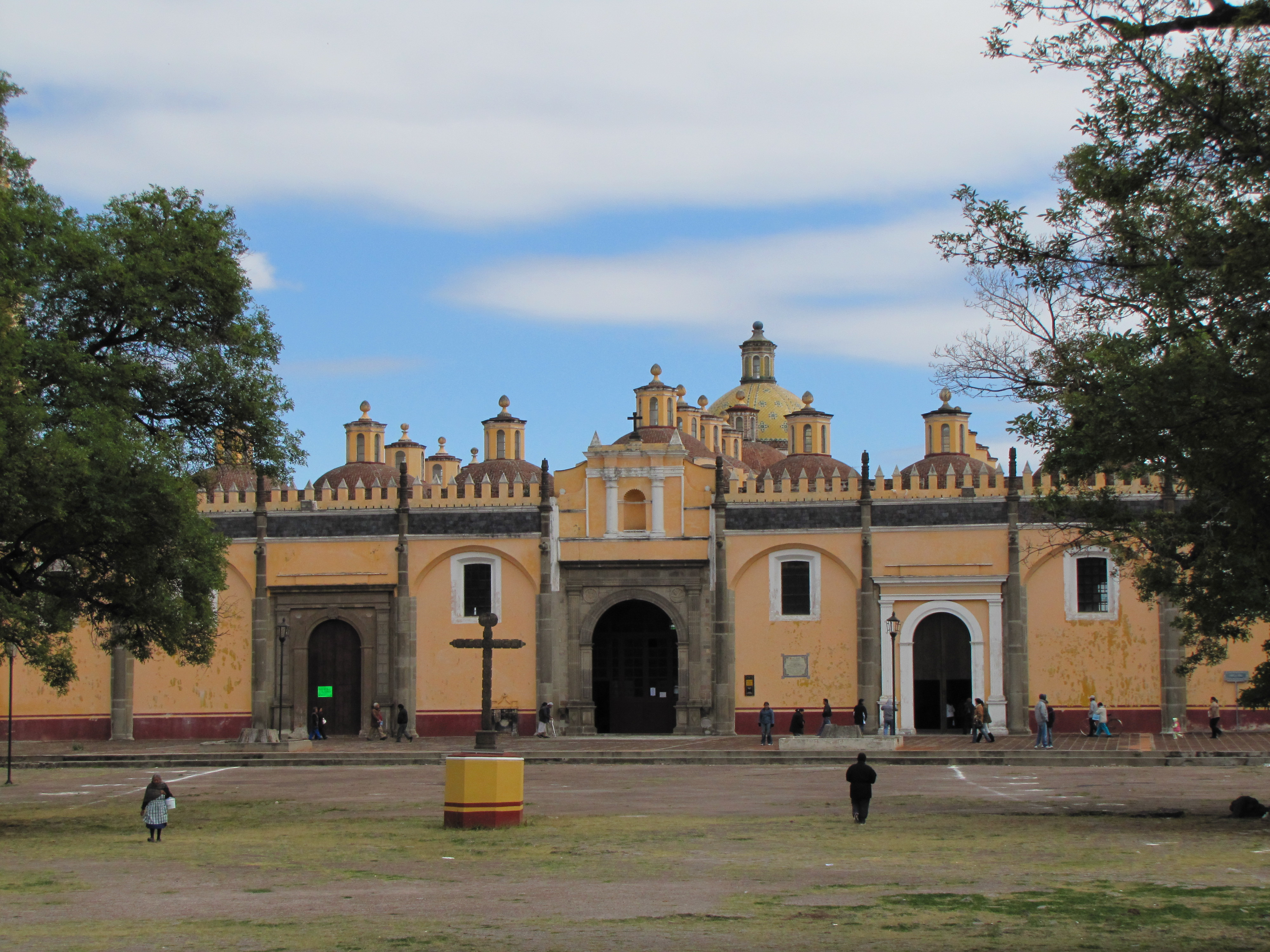 Capilla Real—frontispiece excluding north bell tower and south tower.